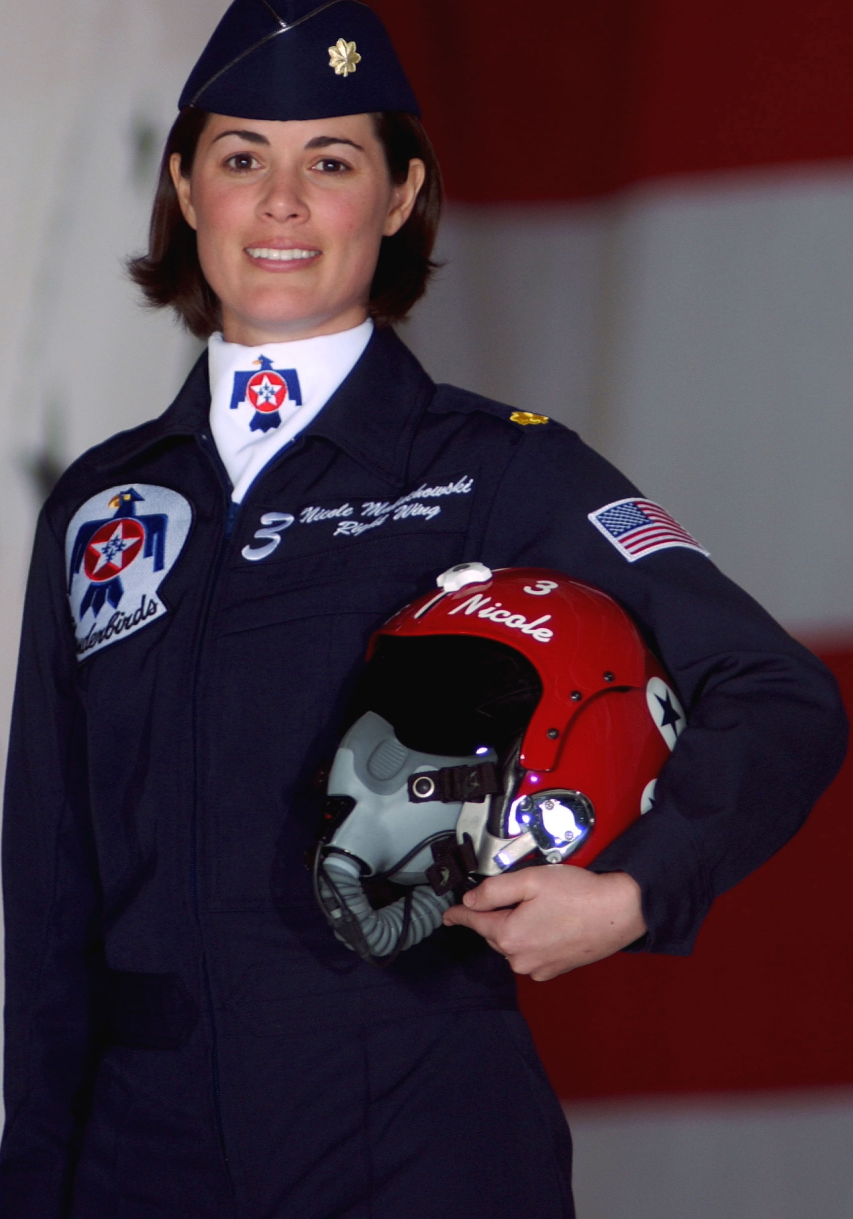 Maj. Nicole Malachowski, the first female pilot selected to fly as part of the USAF Air Demonstration Squadron.